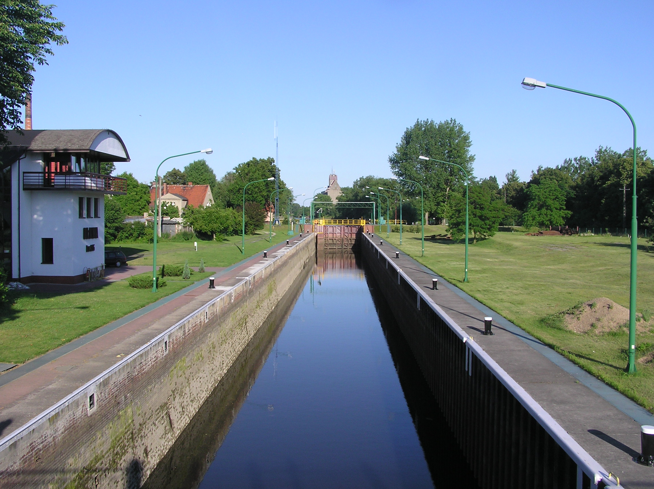 Oława II Lock